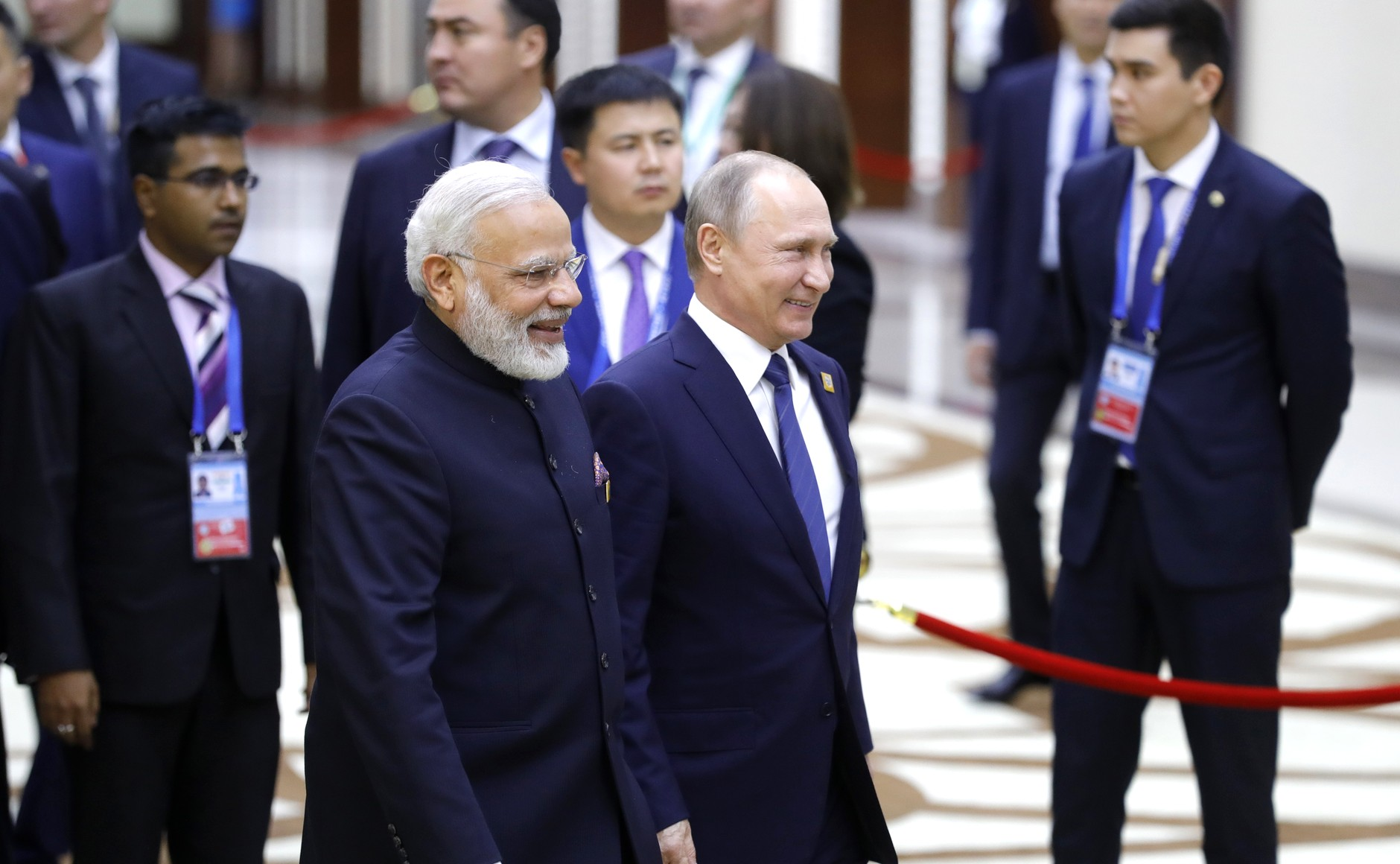 Prime Minister Narendra Modi and President Vladimir Putin at the 2017 Shanghai Cooperation Organisation summit in Nur-Sultan, Kazakhstan.